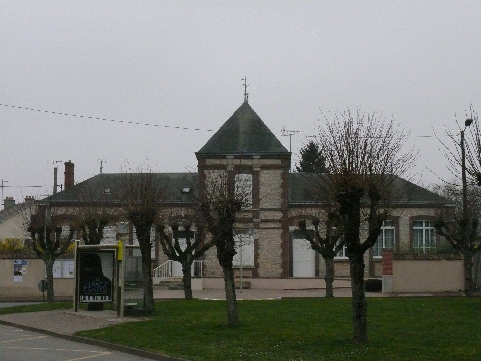 The city hall of Neuvy-en-Beauce (Eure-et-Loir, Centre, France).